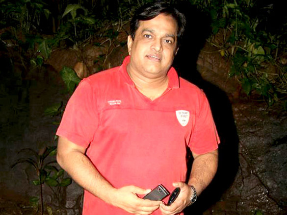 Vivek Shauq at Actress Vinita Menon's birthday bash